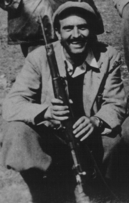 Delegates of the Yugoslav Communist Central Committee Miladin Popović, standing to the left, and Dušan Mugoša, sitting to the left, with Albanian Communist leader Enver Hoxha sitting to the right, in 1942 or 1943.